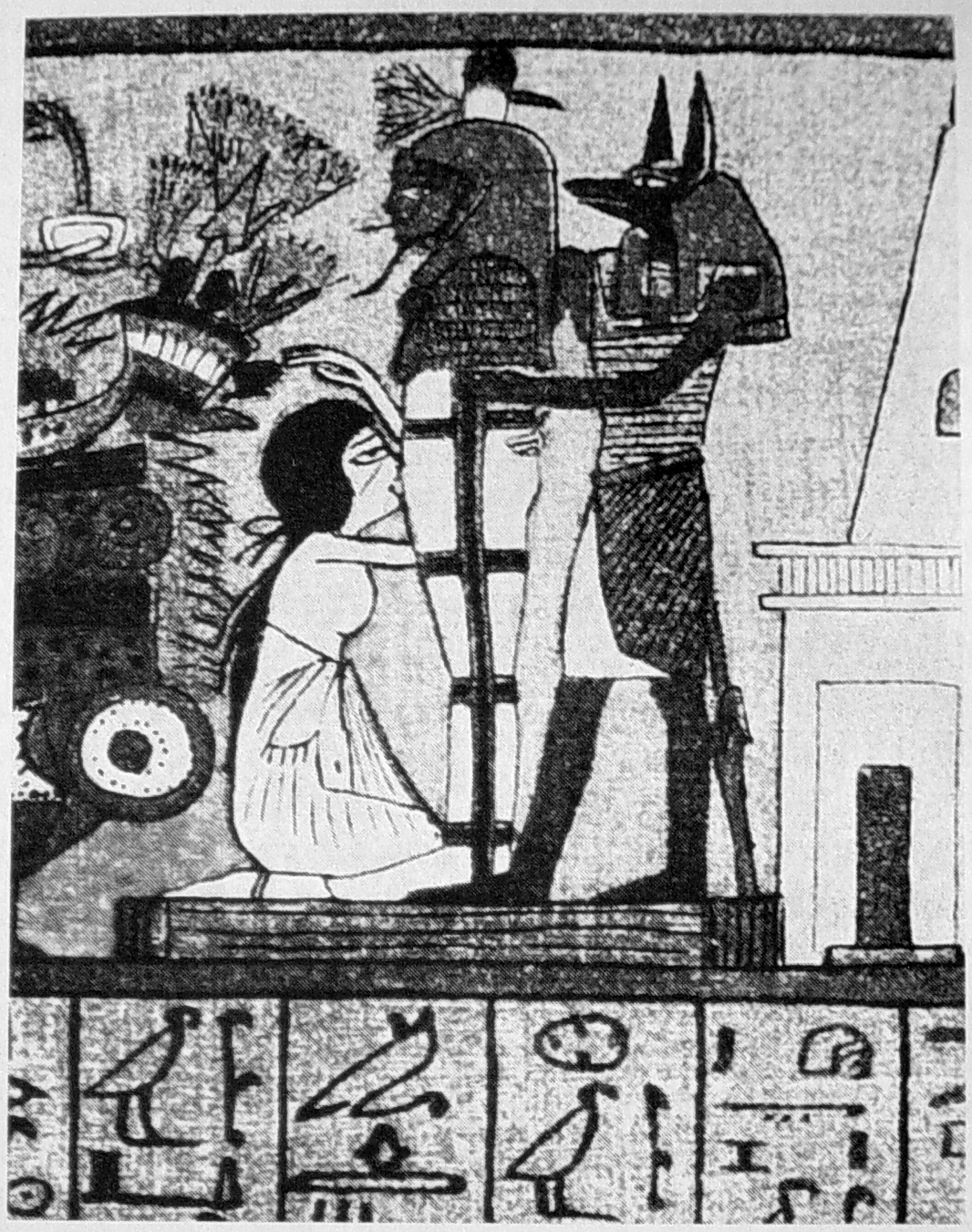 Scene illustrating Book of the Dead spell 23; wife is crying before her mummified Husband; from the Book of the Dead of Ani, British Museum; full view [1]